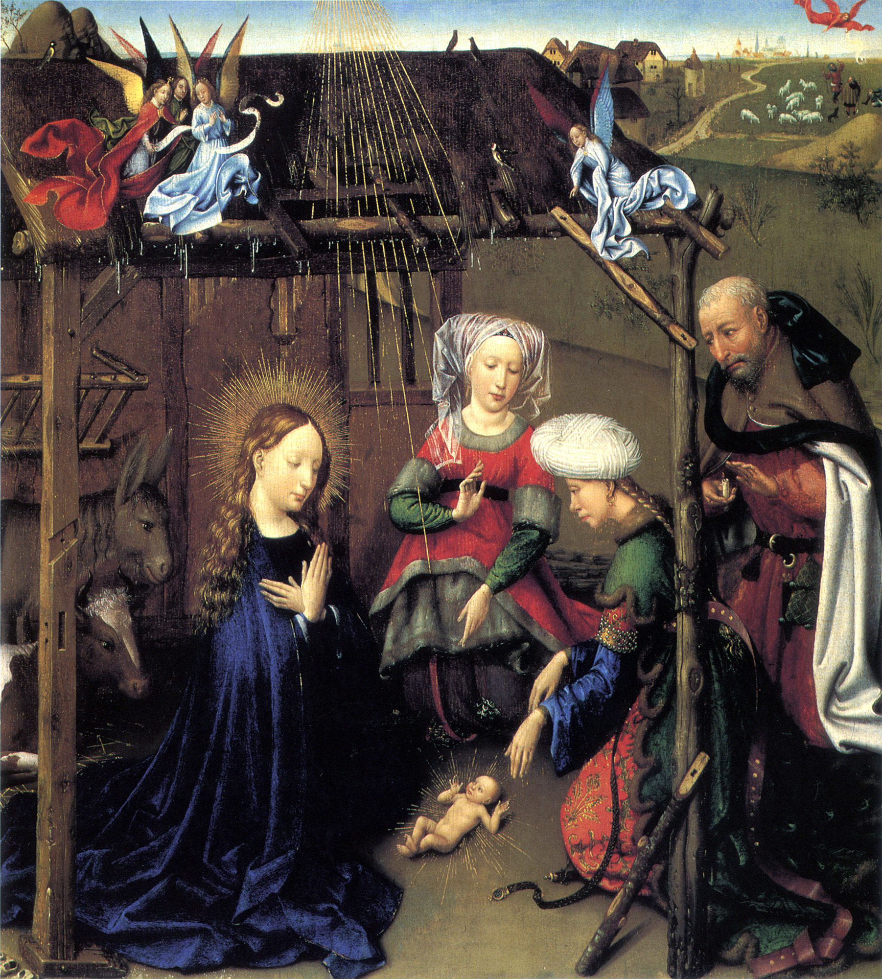 Nativity, from Altarpiece of the Virgin (St Vaast Altarpiece)